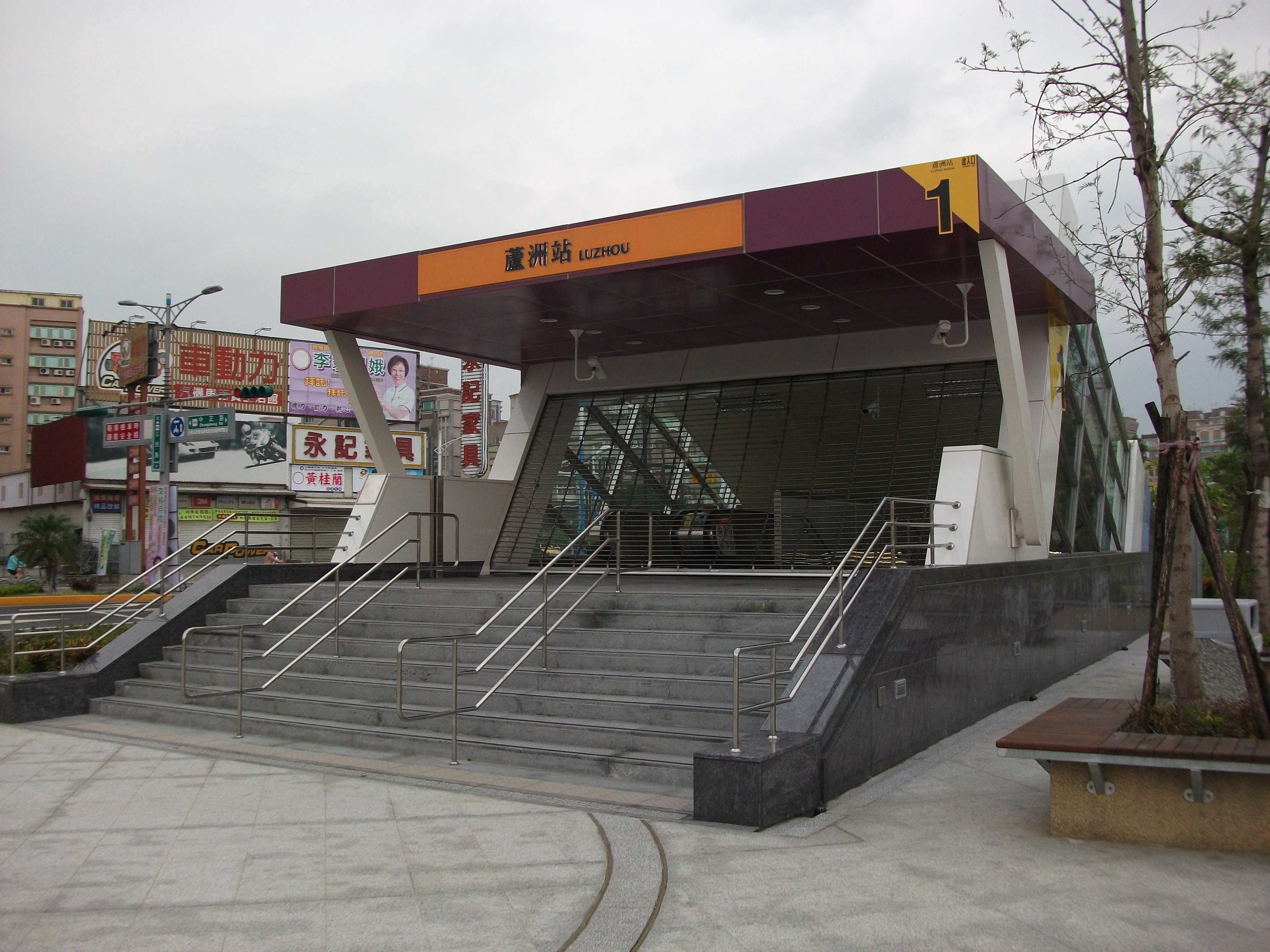 Taipei Metro Orange Line Luzhou Station entrance 1中文（台灣）: 通車前的台北捷運橘線蘆洲站1號出口。